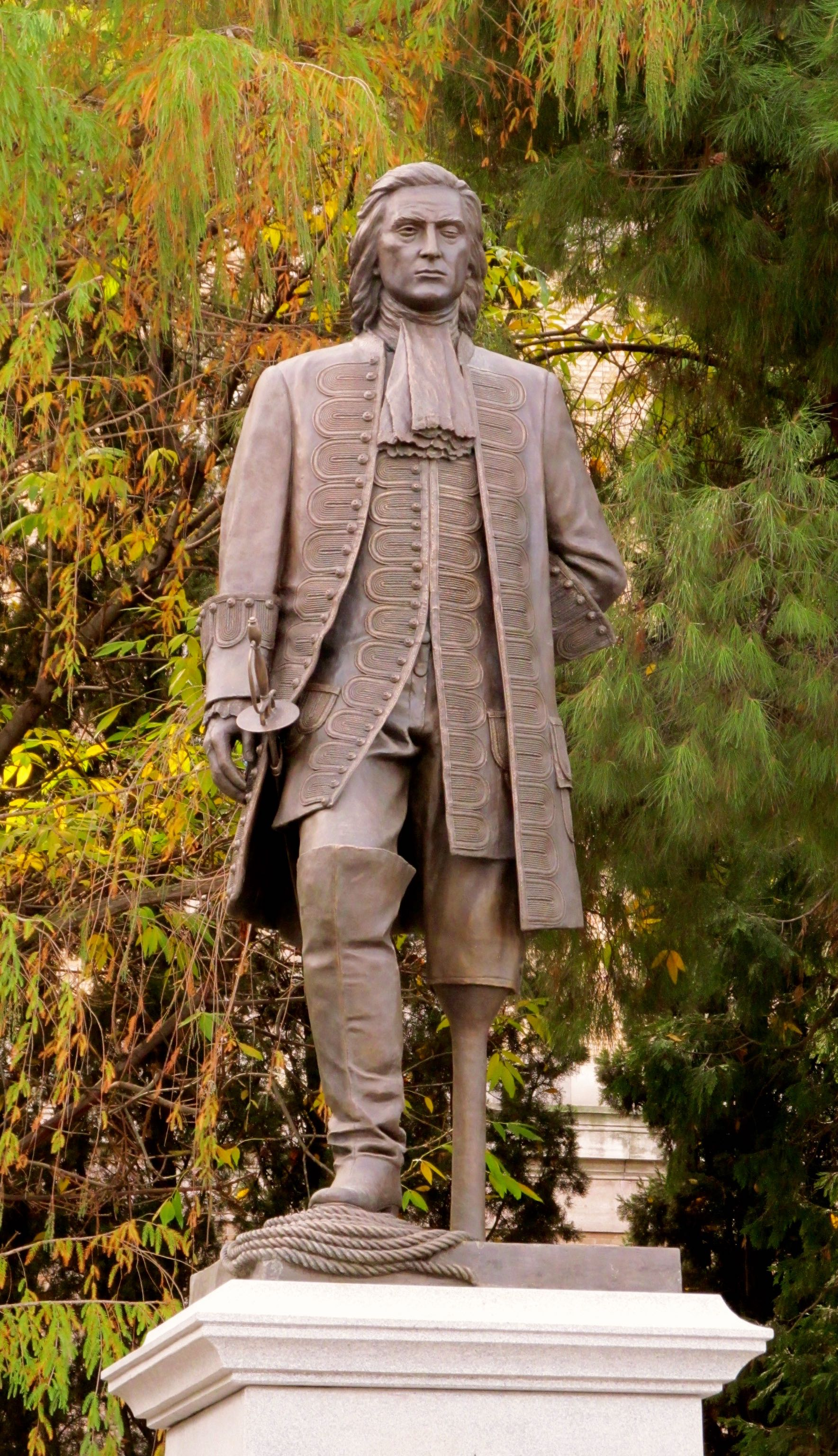 Monument in Madrid to Blas de Lezo, the hero of Cartagena de Indias, an official one-eyed, lame and one-armed of the Spanish Navy which resisted the attack of 195 English ships with just 6 ships during the 18th century.